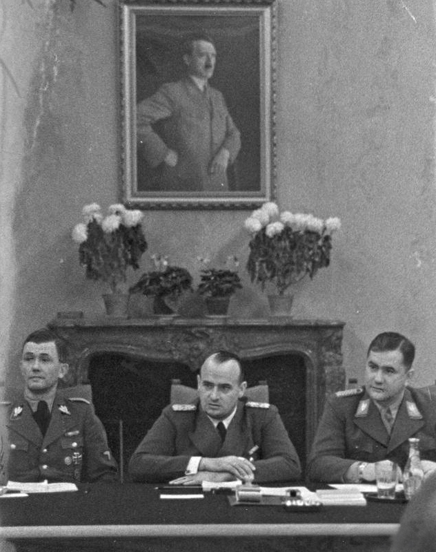 Paul Moder, Hans Frank, Ludwig Fischer